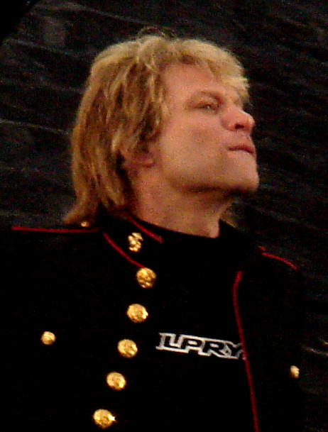 Jon Bon Jovi on stage live at Dublin May 2006. Wearing a United States Marine Corps dress blues blouse.